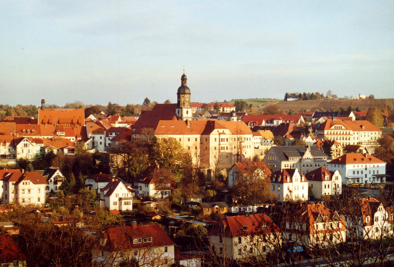 This image shows the historic district of Dippoldiswalde in Saxony, Germany.